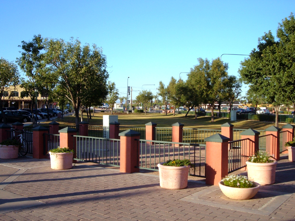 Photograph of A.J. Chandler Park located in downtown Chandler, Arizona. This photograph was taken by me and modified using Photoshop.